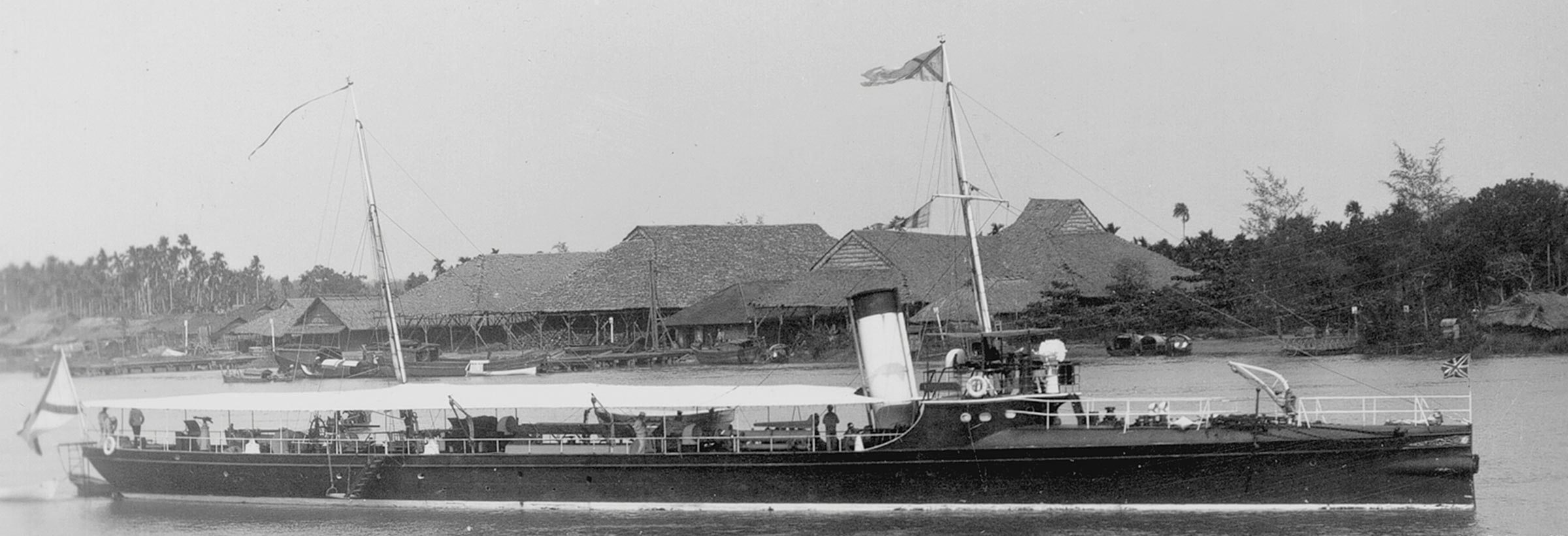 The Imperial Russian torpedo crusier Gaydamak, circa 1894.